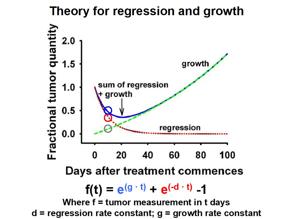 Tumor fractional size as a function of regression (d) and growth (g) constants.